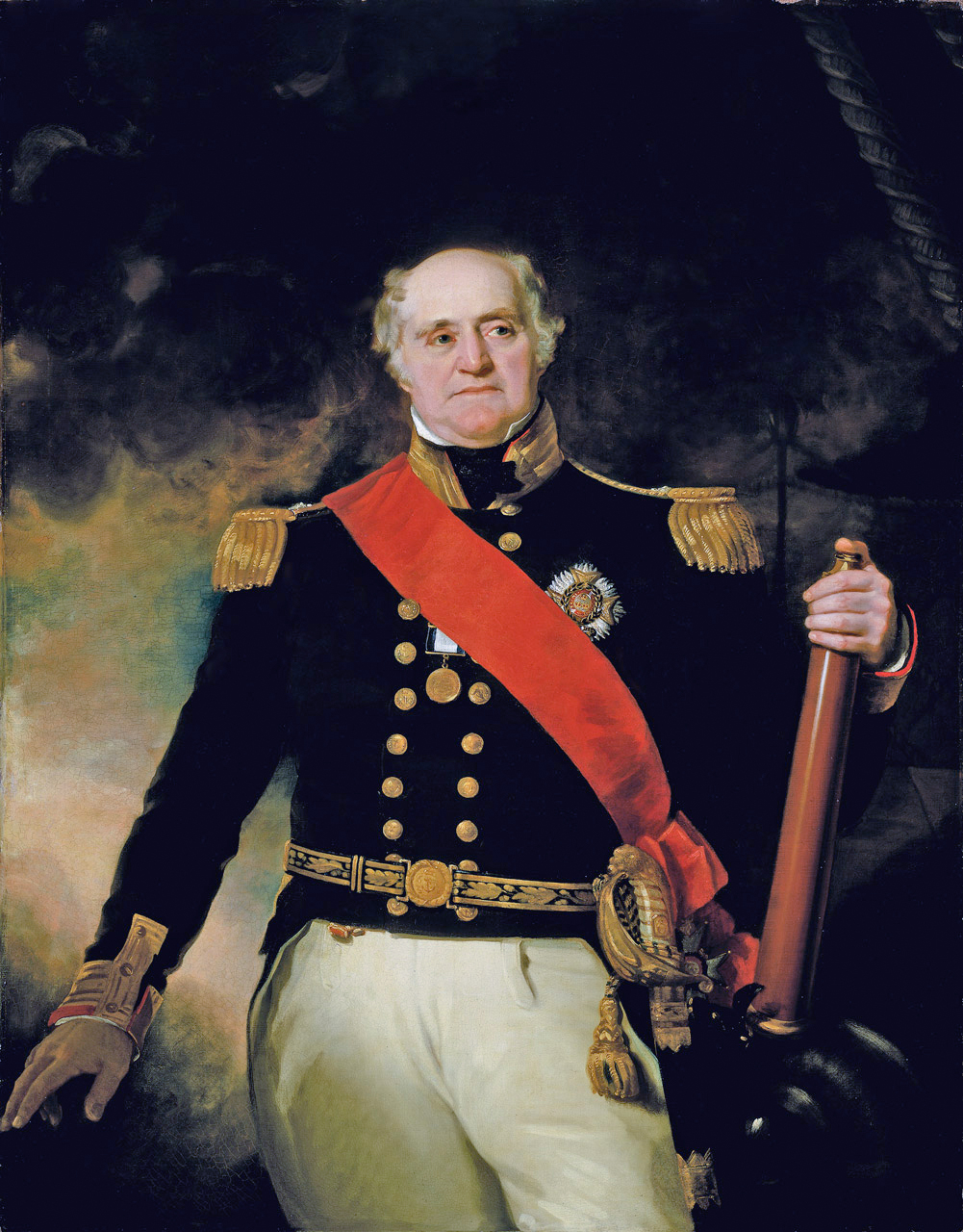 Captain Thomas Masterman Hardy - from the painting by Robert Evans, at Greenwich Hospital.